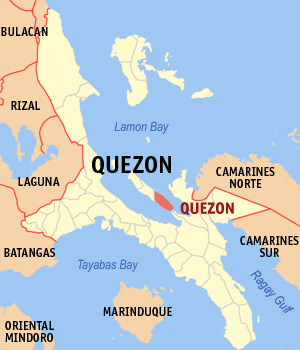 Map of Quezon showing the location of the Municipality of Quezon